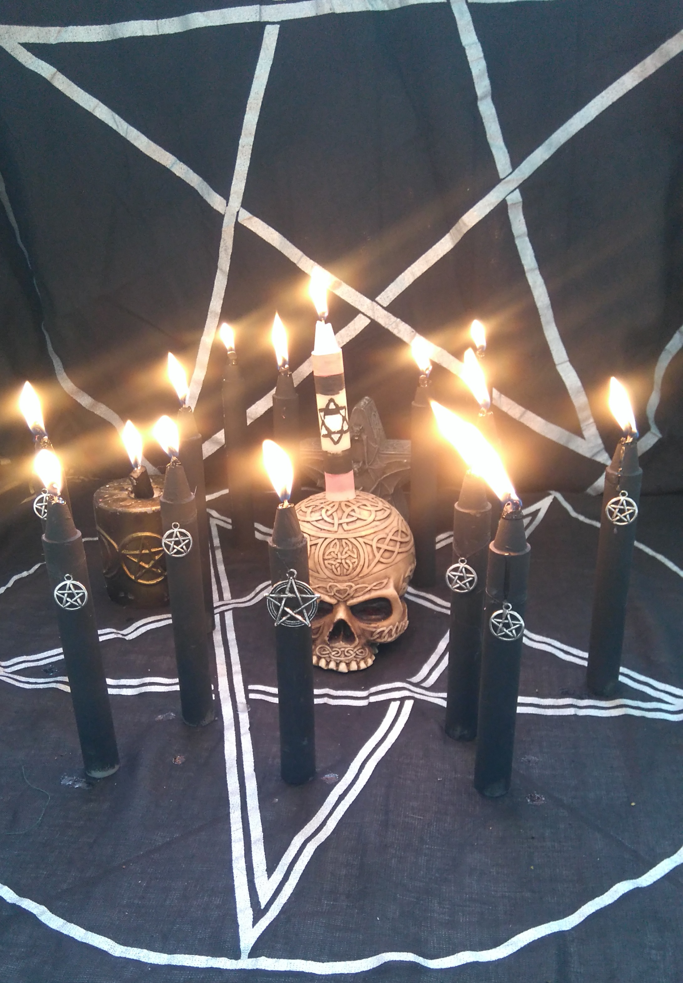 Black magic ritual spell